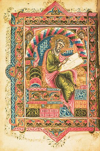 Gospel, Isfahan, 1610, artist Hakob Jughayets'i, St. Matthew (Erevan, Matenadaran, MS 7639)